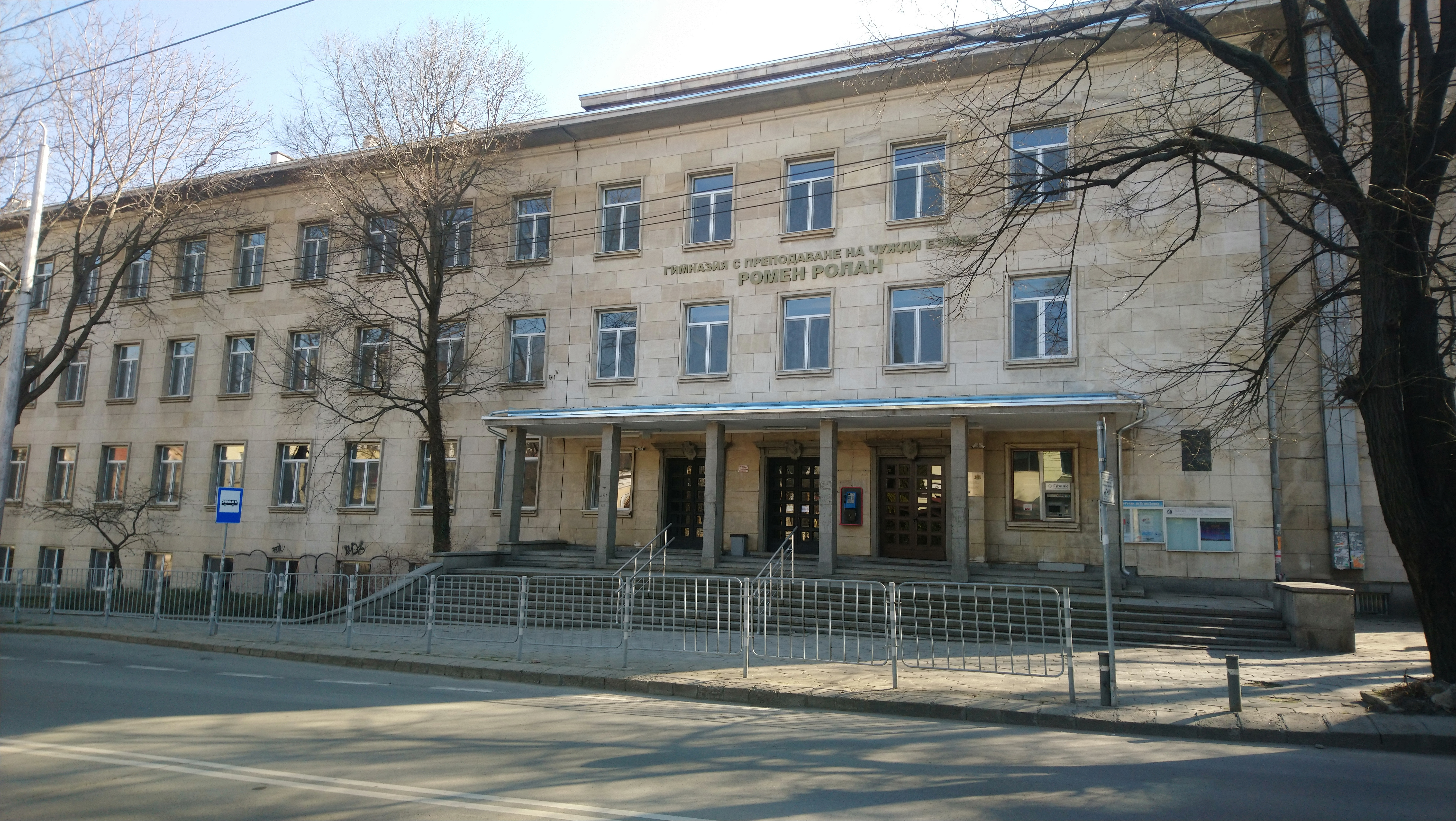 GPCE "Romen Rolan"